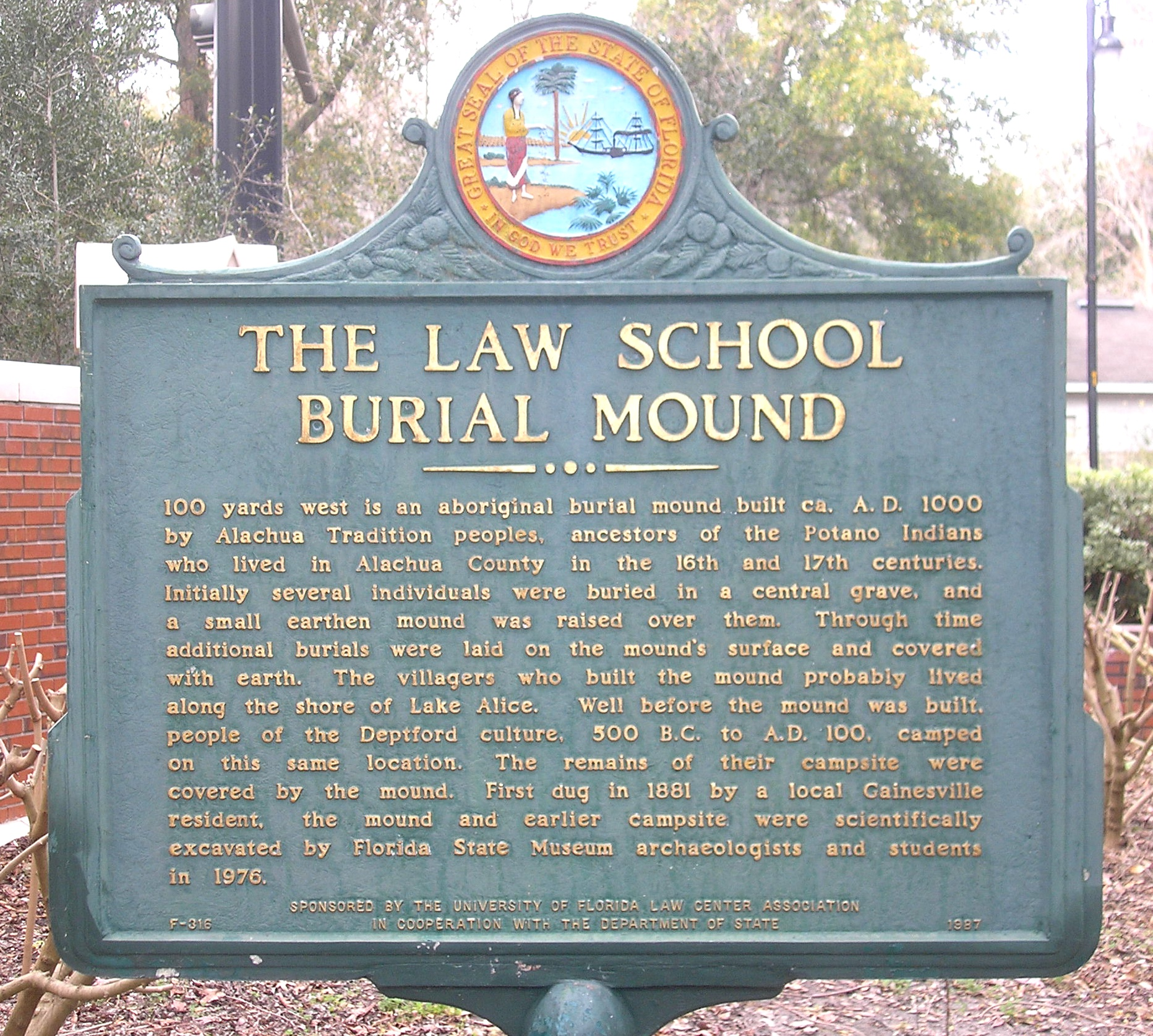 Historical marker describing the "Law School Burial Mound" on the grounds of the University of Florida.